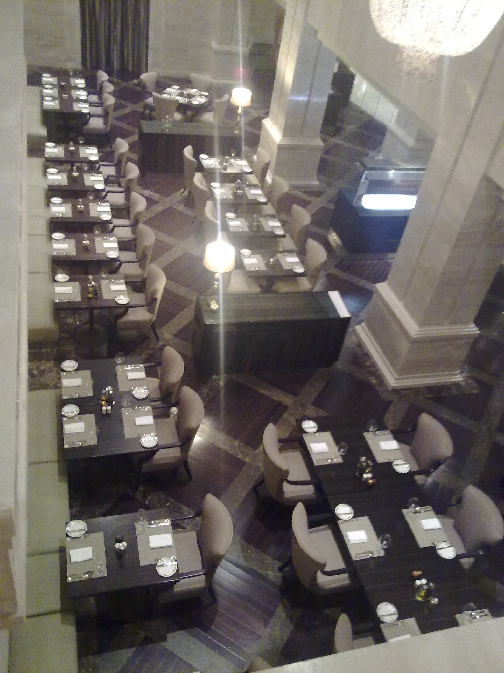 ITC GRAND CHOLA HOTEL in Chennai